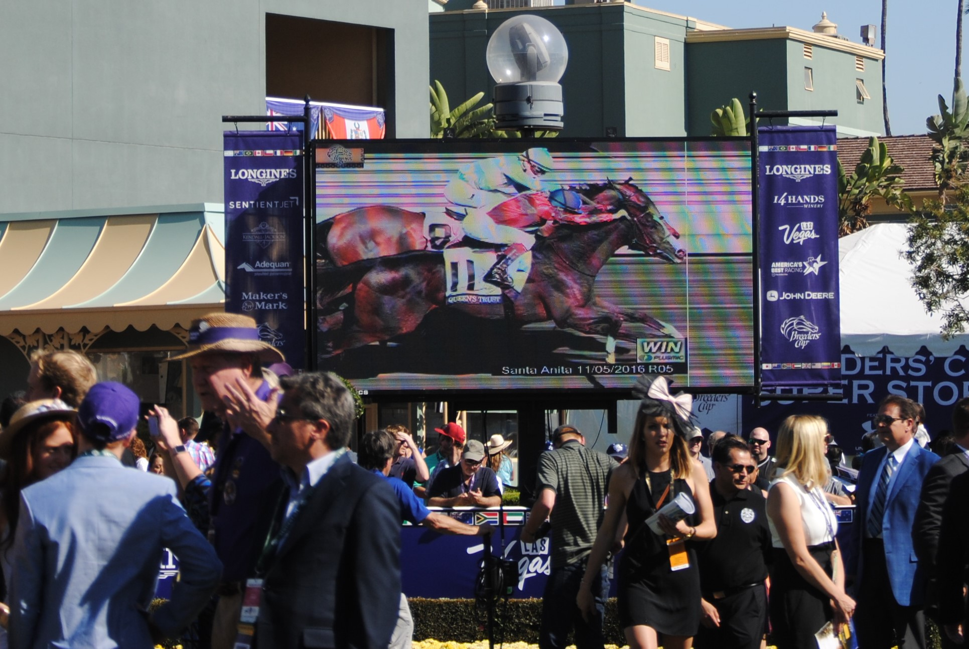 A photo finish in the Filly & Mare Turf - Queen's Trust (11) prevails over Lady Eli by a nose